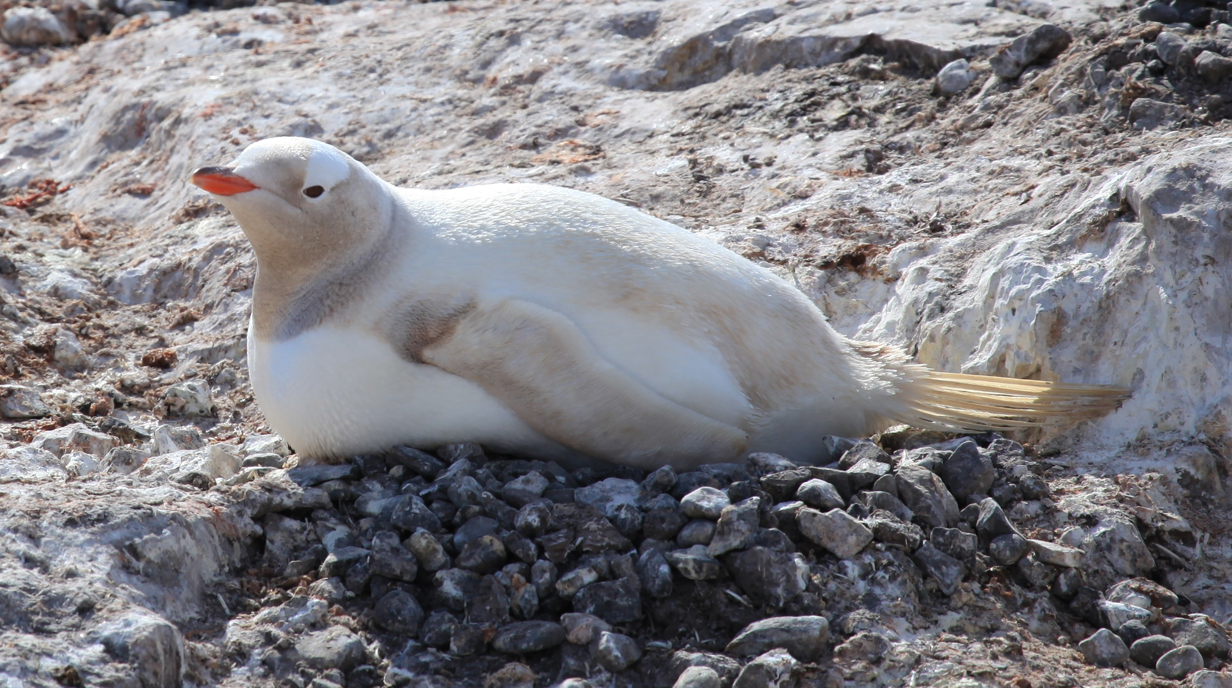 This penguin has albinism, a condition in which blond feathers replace the usual black. I photographed this rare penguin at Waterboat Point, Antarctica.